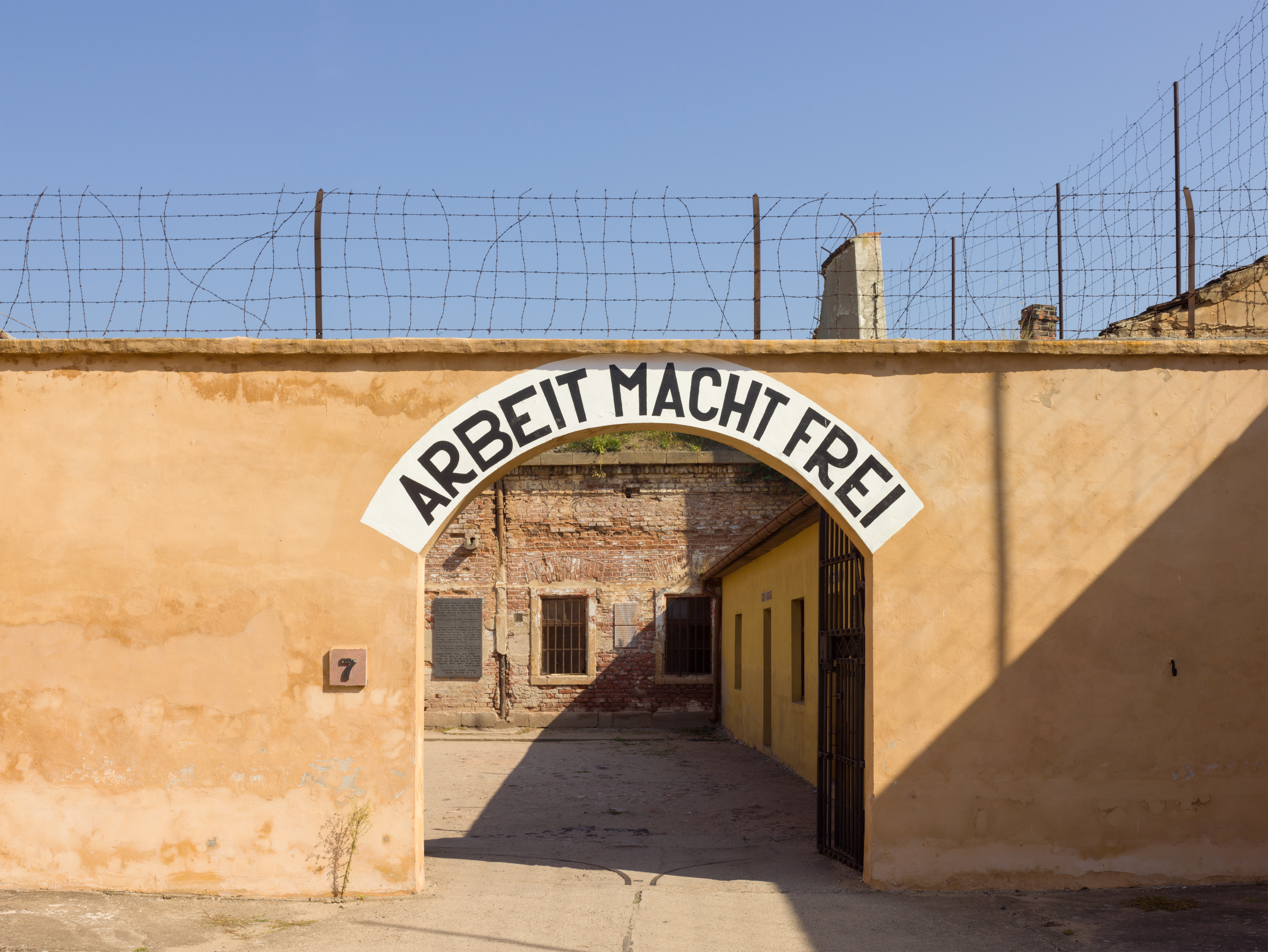 Theresienstadt concentration camp archway with the phrase Arbeit macht frei (work makes (you) free), placed over the entrance in a number of Nazi concentration camps.